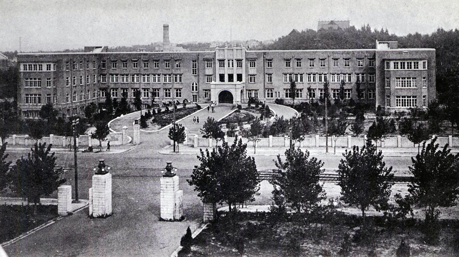 Fushun SMR Hosptial